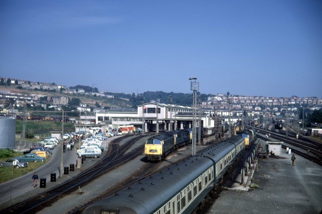 Laira Depot Plymouth. Taken from the now long gone footbridge that lead off Embankment Road to the depot. This was the public open day on Saturday 23 September 1972.